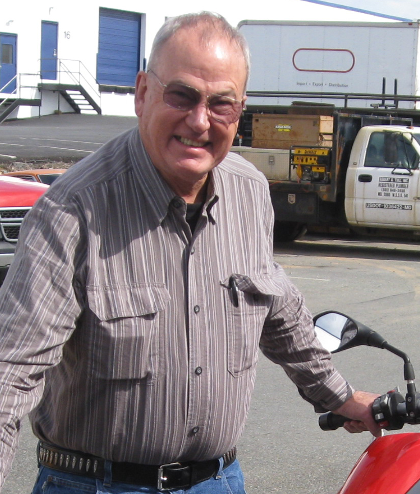 an image of a person, Devin Battley, standing next to a motorcycle on his dealership property.